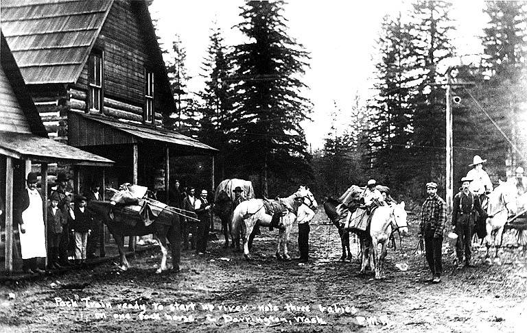 Montegue and Moore store built in 1900. Caption on image: Pack Train ready to start up river [Sauk]. -note three babies on one pack horse. Darrington, Wash. P.M.R. On verso of image: Pack train of Nils Osterberg who had a cabin at Sulphur Creek Subjects (LCSH): Montegue and Moore (Darrington, Wash.); Stores, Retail--Washington (State)--Darrington; Pack animals (Transportation)--Washington (State)--Darrington; Children--Washington (State)--Darrington